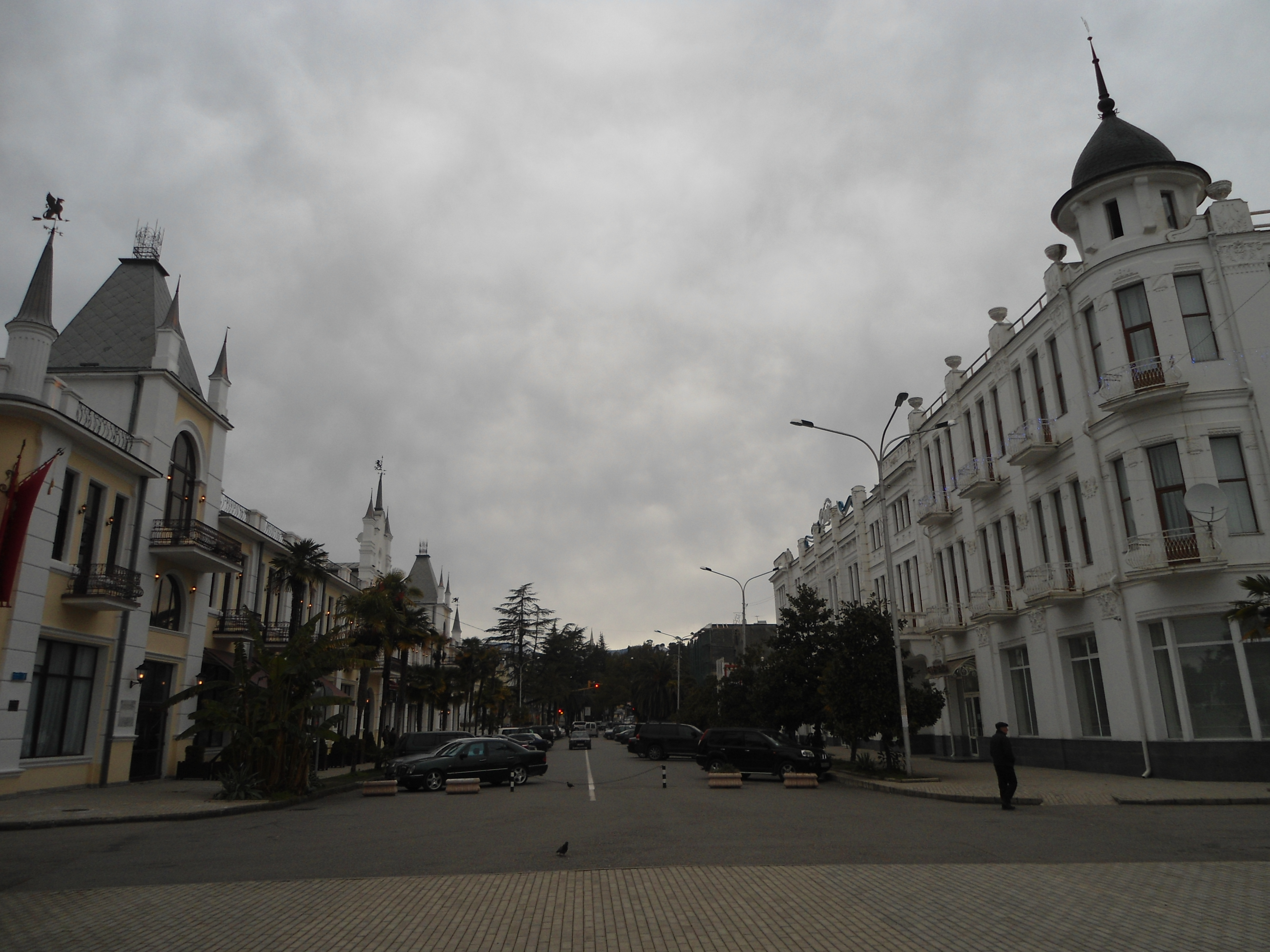 Facing away from the waterfront, Sukhumi, Abkhazia. January 2013.